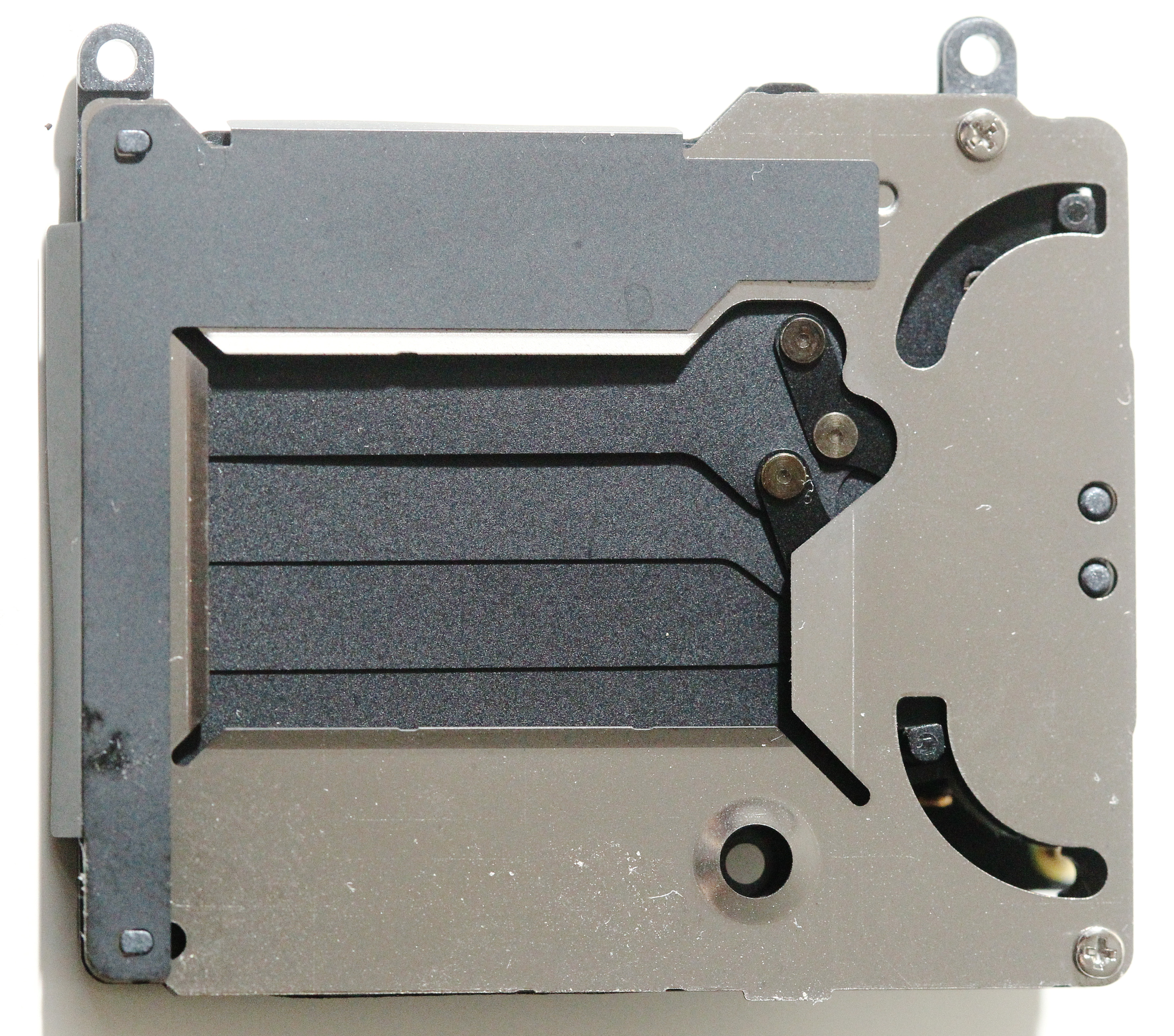 Square-type metal bladed shutter of 'Canon EOS-20D' DSLR.